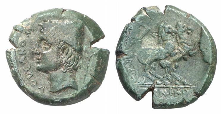 SAMNIUM, Aesernia. Circa 263-240 BC. Æ 20mm (6.62 g). VOLCANOM head of Vulcan wearing pileus left; tongs behind AISΕRΝΙΝΟ Zeus driving biga right; Nike flying above. Near VF, green patina.